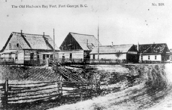 Photographer: Unknown Photo taken:1880 Source:B-00337 [1]